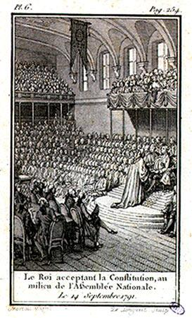 Louis XVI of France swears constitution